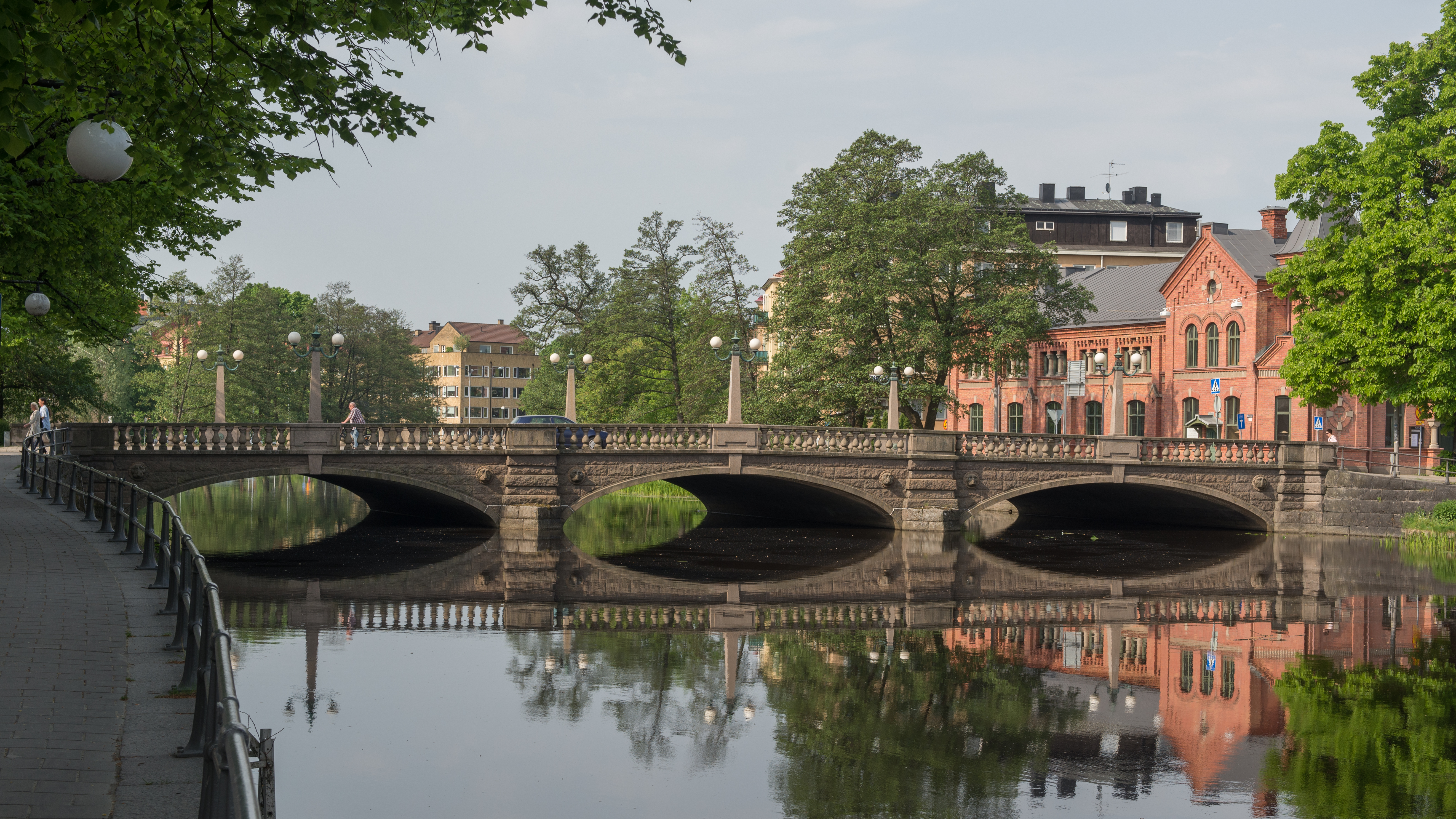 Vasabron (the Vasa bridges). Örebro, Sweden.